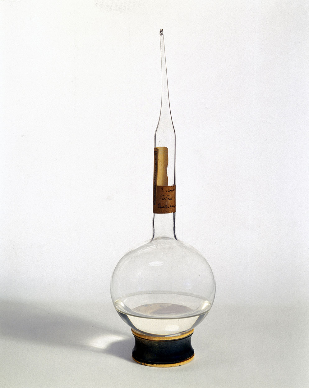 This flask was used by the French chemist, Louis Pasteur (1822-1895), in his experiments to show that germs are the cause of disease and decay. In order to prove that germs are present in air and will grow in a sterile nutrient medium, Pasteur boiled broth in glass flasks and sealed the ends to prevent air from entering. The broth stayed unspoilt until the flasks were opened, proving Pasteur's theories. This flask has remained sterile since the day that it was heated and sealed during the 1860s. Pasteur developed the pasteurisation process which kills pathogens in milk, wine and foods, and produced vaccines against anthrax and rabies.